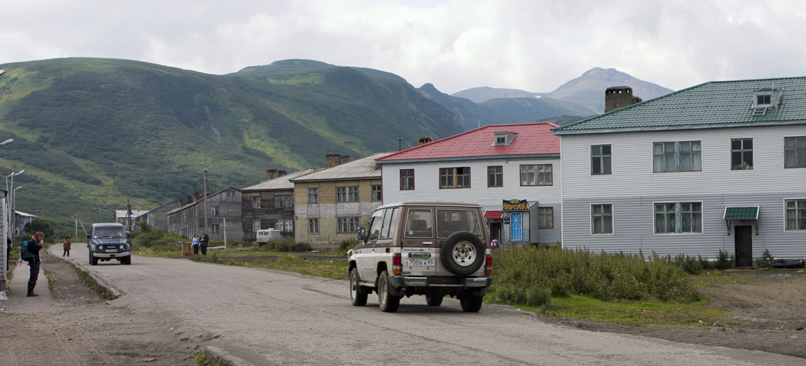 Main street of Severo-Kurilsk, town on Paramushir Island, Kuril Islands, Pacific ocean north from Japan